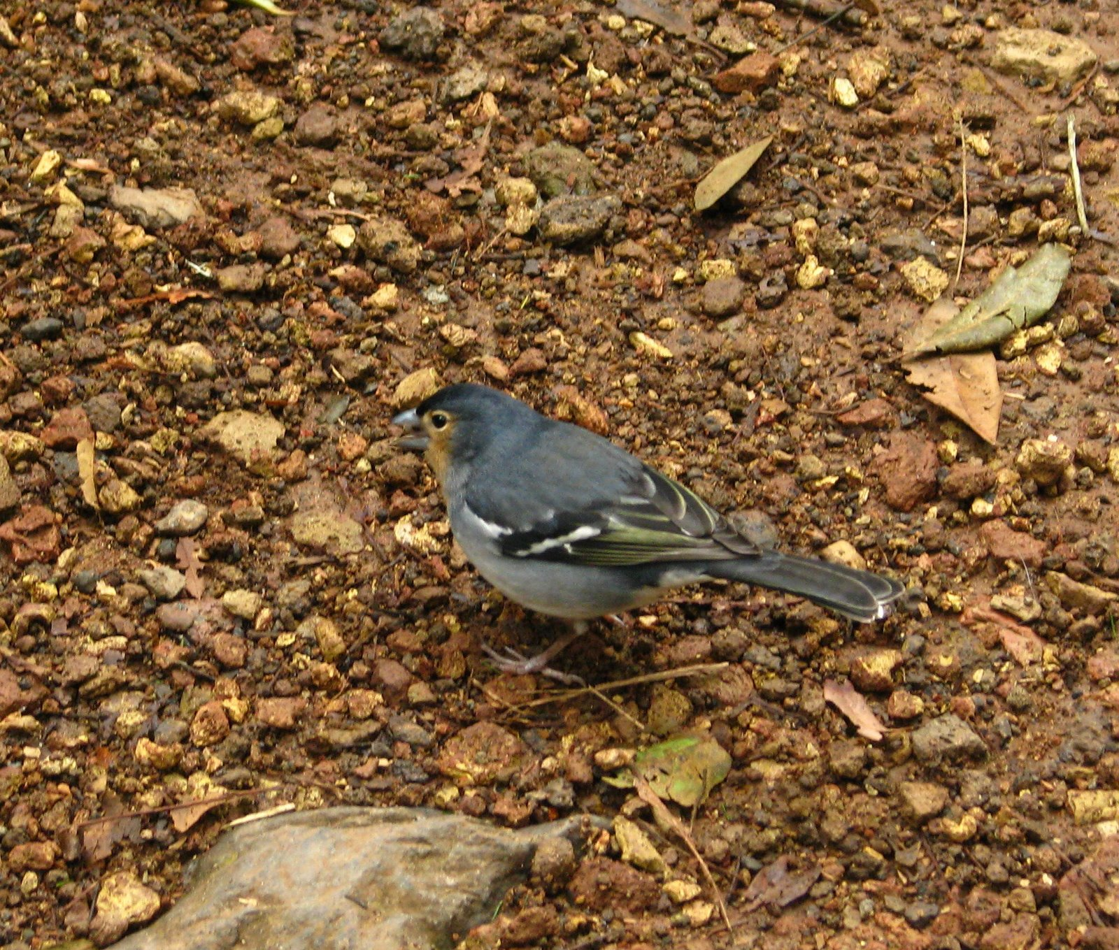 A Chaffinch on the island of La Palma, Canary Islands, Spain.